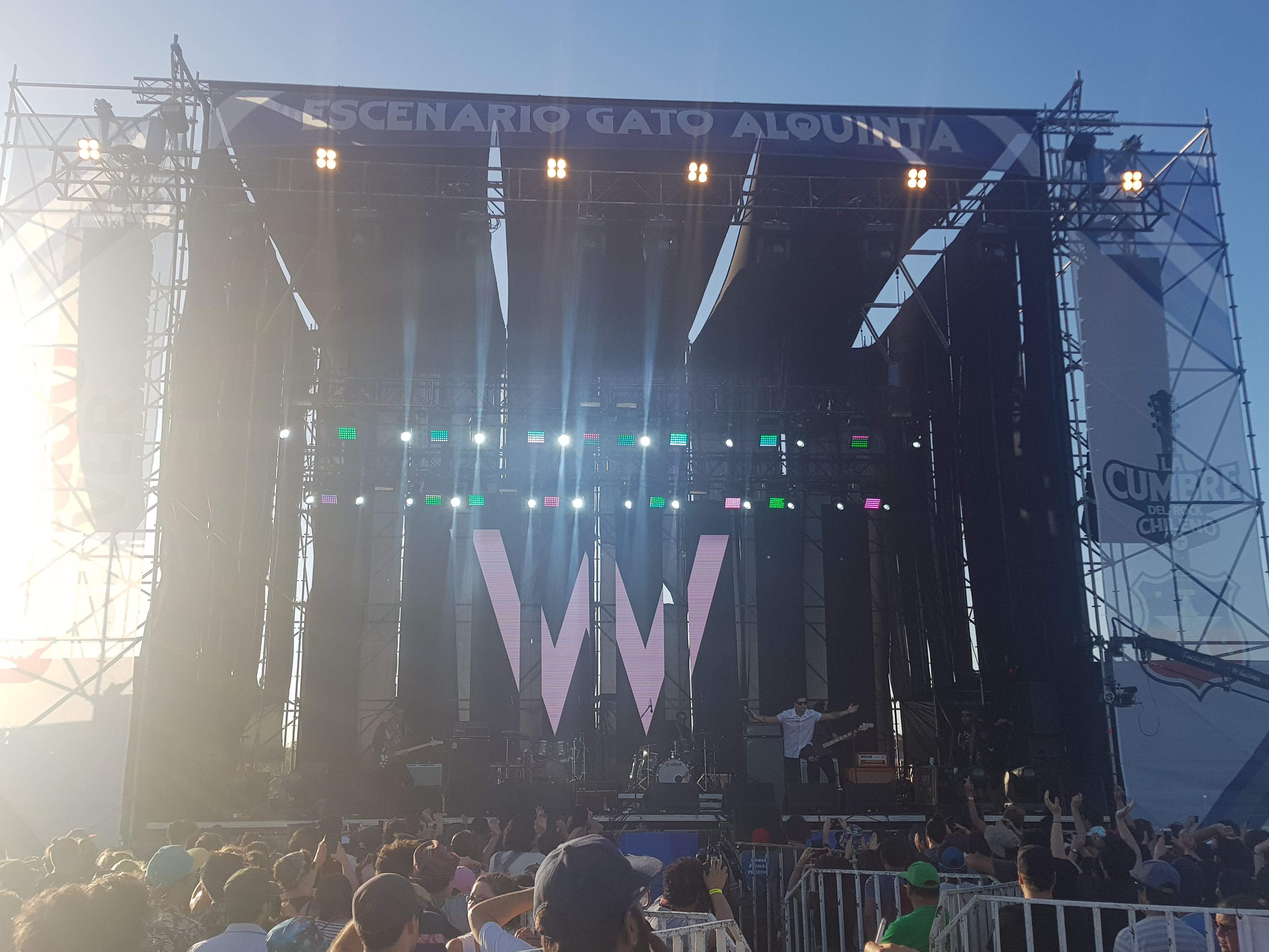 We Are the Grand performing on stage at La Cumbre del Rock Chileno 2018